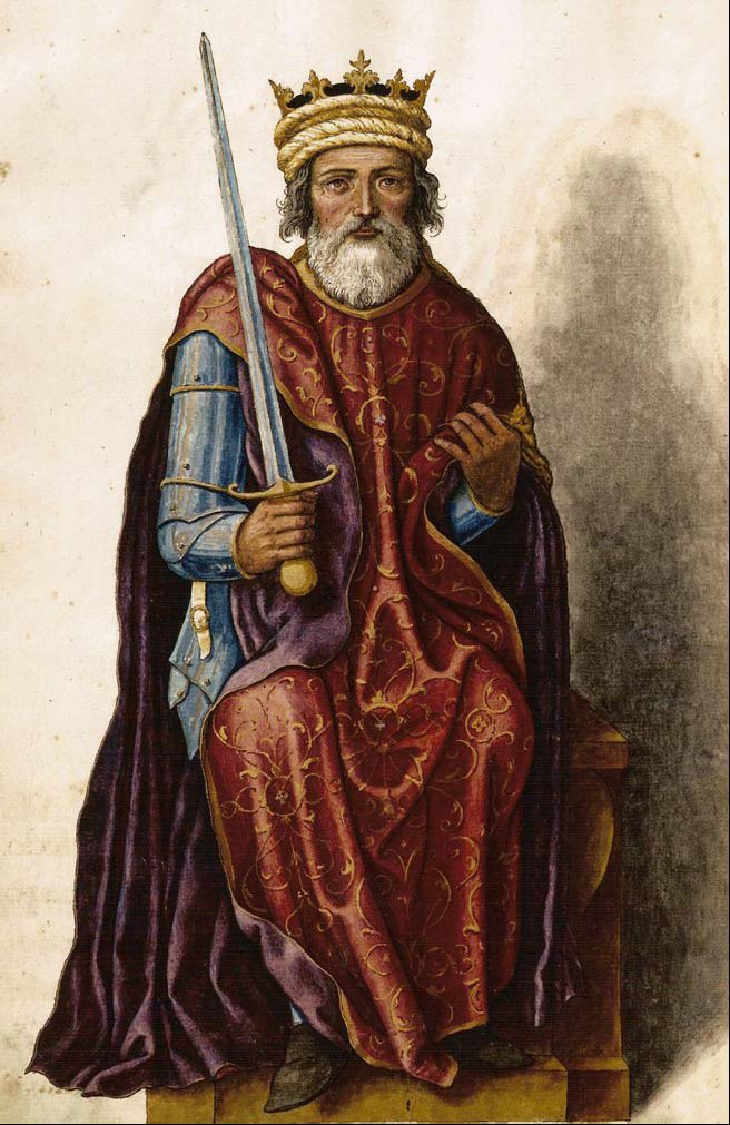 Ferdinand III. of Castile